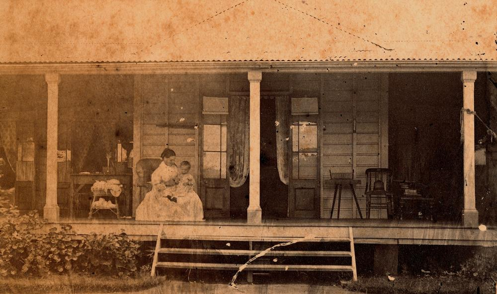 Winifred Rawson nursing her son on the verandah of The Hollow. French doors from the sitting room open onto the verandah.